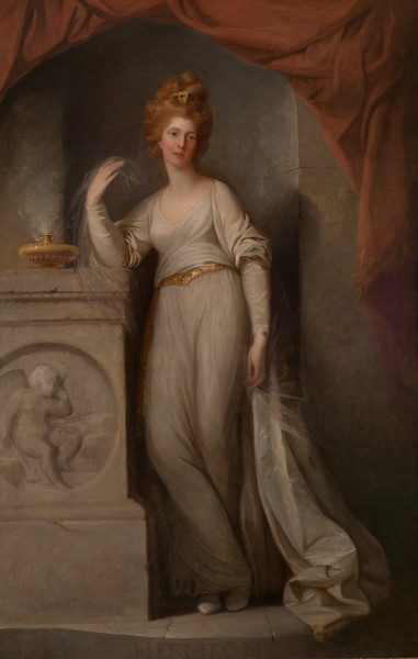 Elizabeth Hartley by Angelica Kauffmann guess! 1774